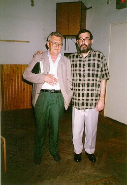 Mihály Ilia and István Baka